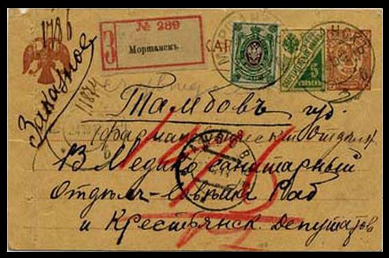 Russian registered postcard of 1918.